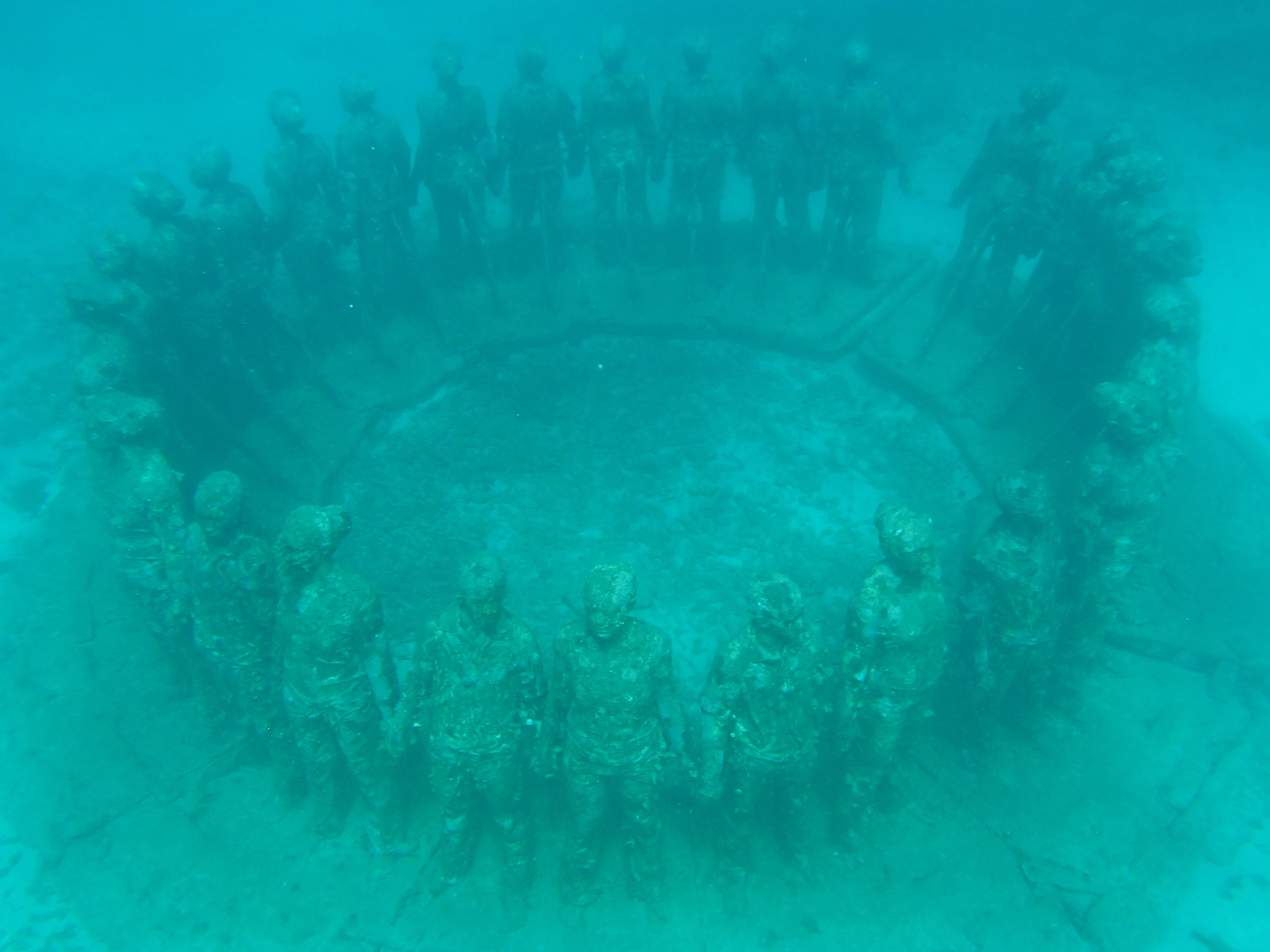 Grenada Featured at